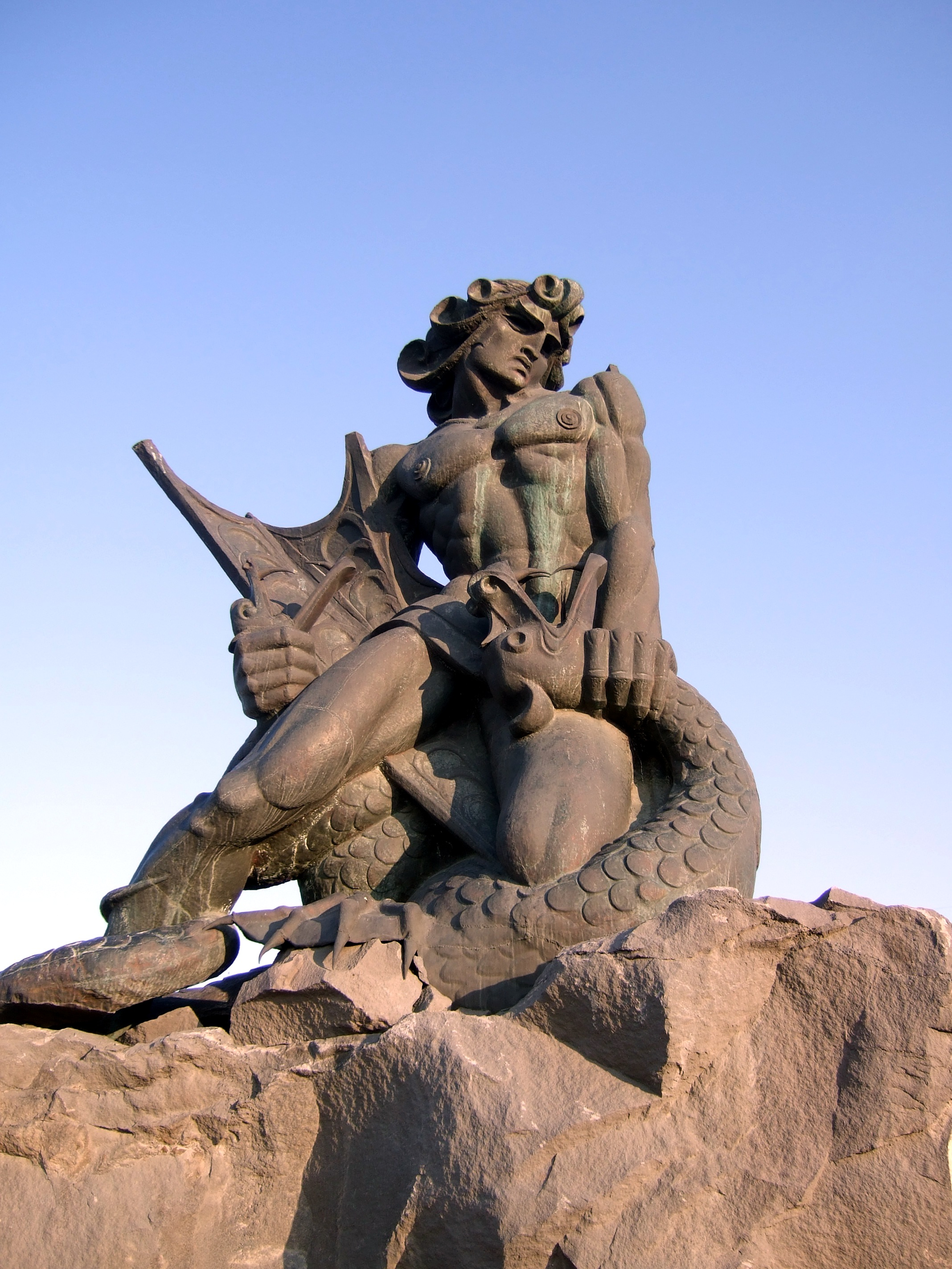 Statue of Vahagn the Dragon Slayer near Yerevan, sculptor:Karlen Nurijanyan 7/10